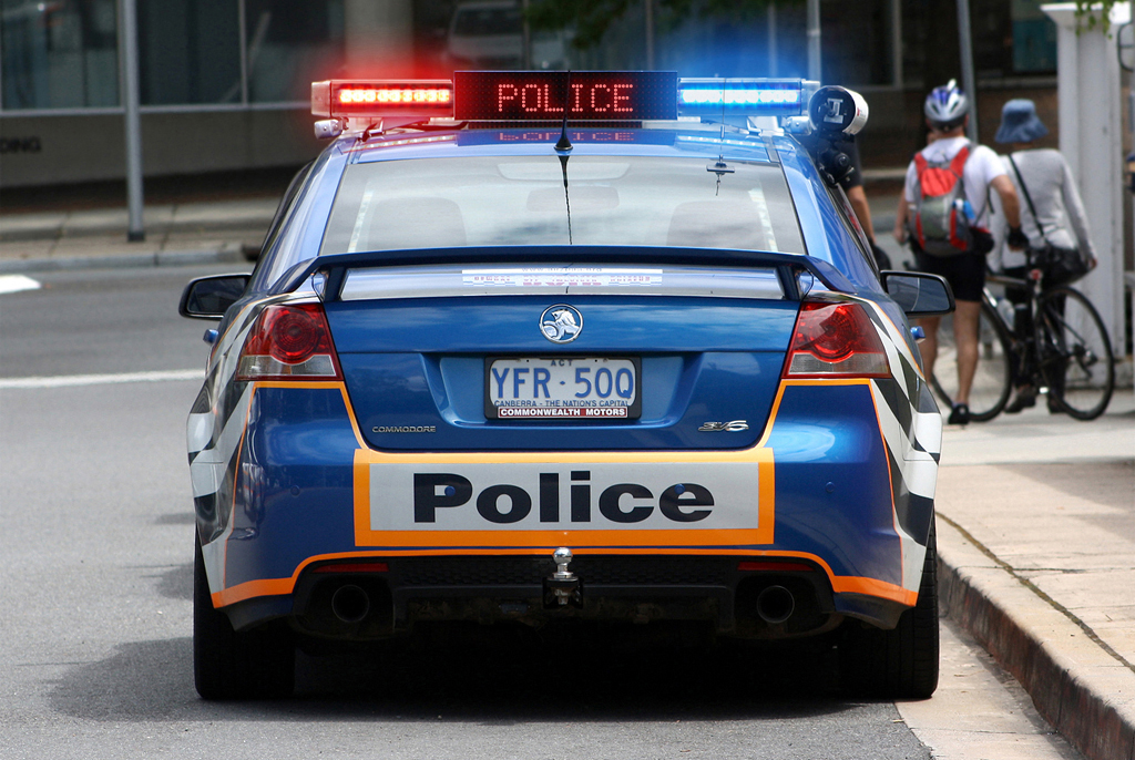 A.C.T. Police marked traffic vehicle with emergency lightbar. Also seen is an LED message board, which can display static or scrolling text.